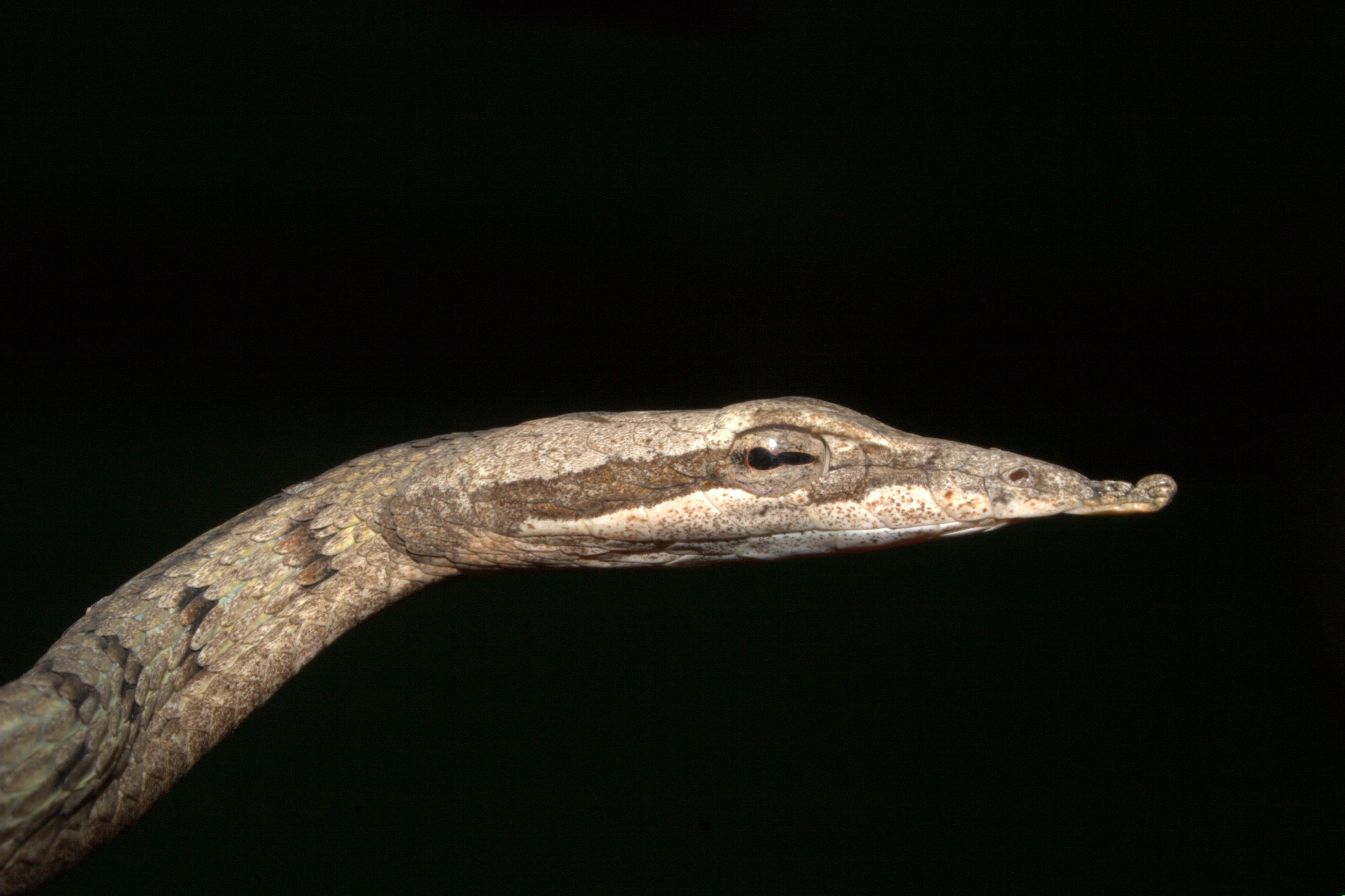 Ahaetulla pulverulenta head view and eye profile